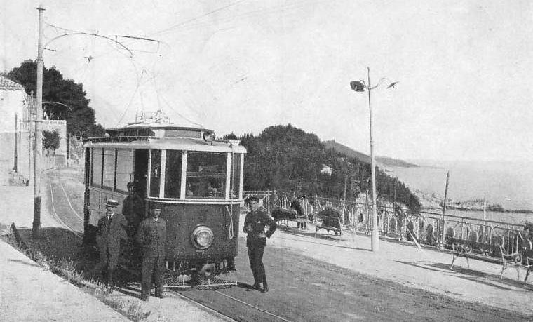 Car 5 of Tram Dubrovnik